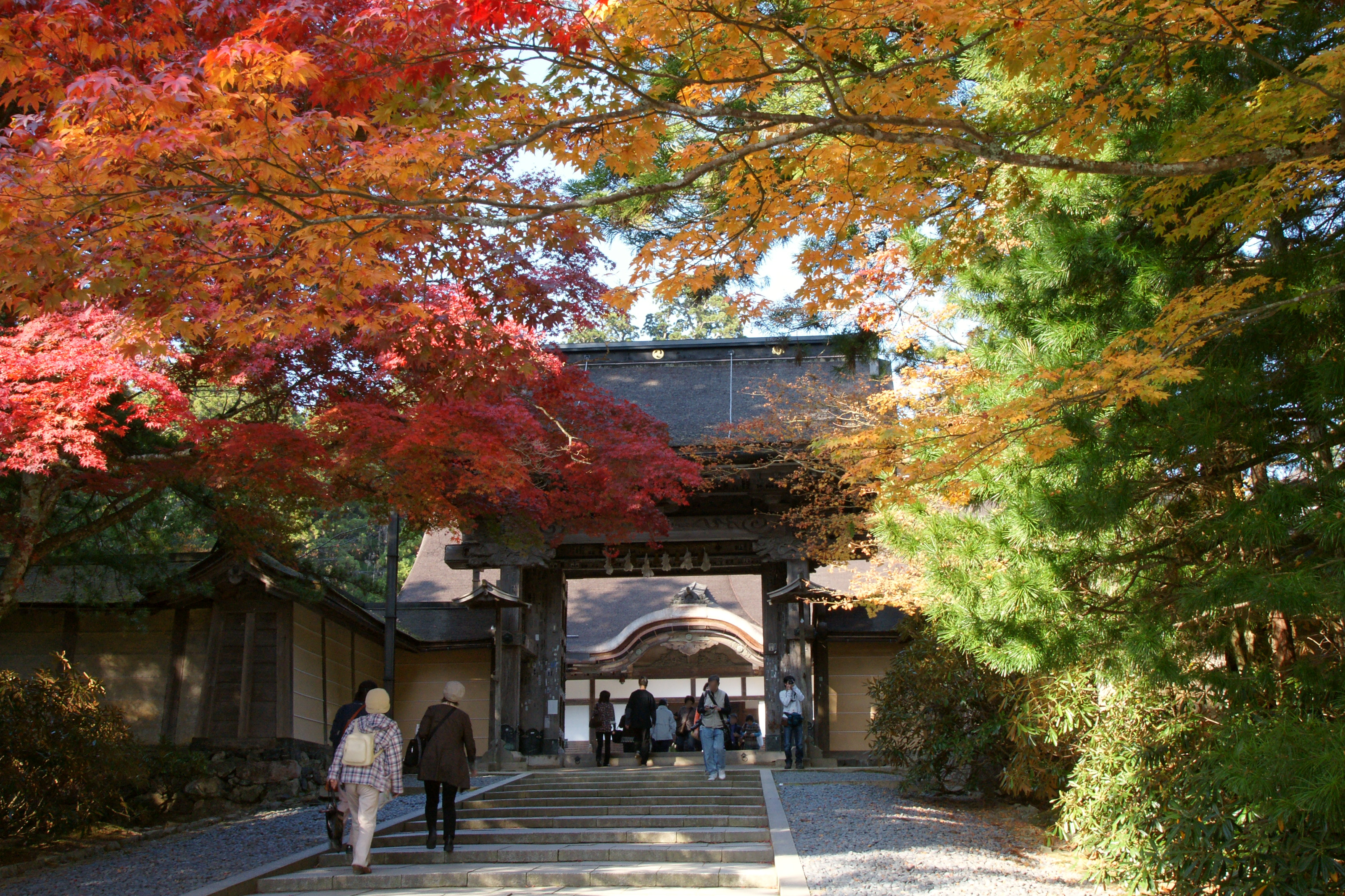 Kongōbu-ji in Mount Kōya, Wakayama prefecture, Japan.